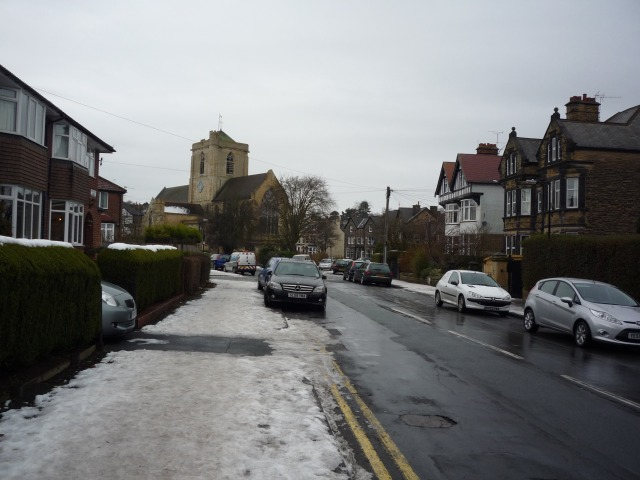 St Mary's Church Looking towards St. Mary's Church from Cold Bath Road.